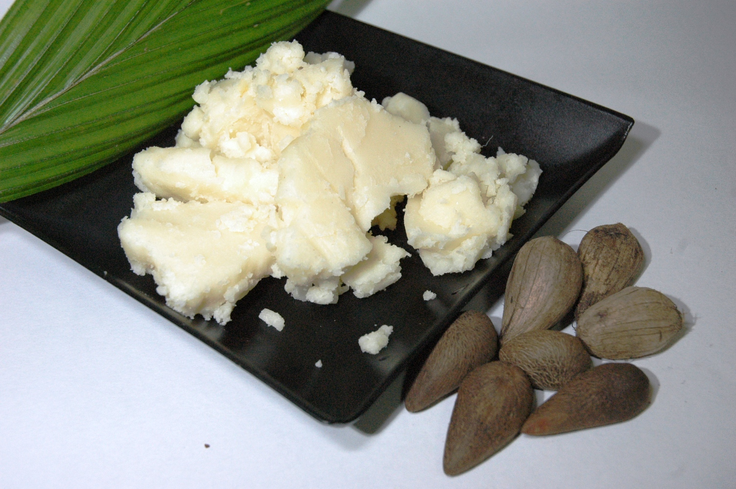 Muru muru butter